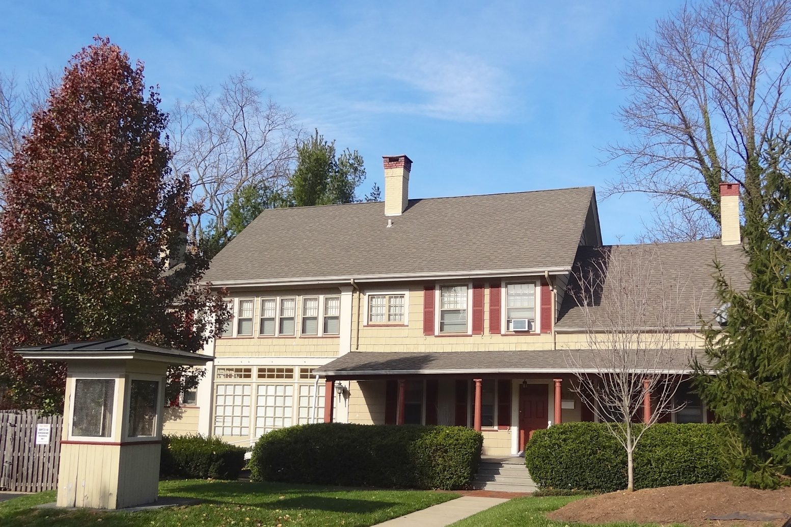 Richard R. Field House. 260 River Road, Piscataway, NJ. Built circa 1724.